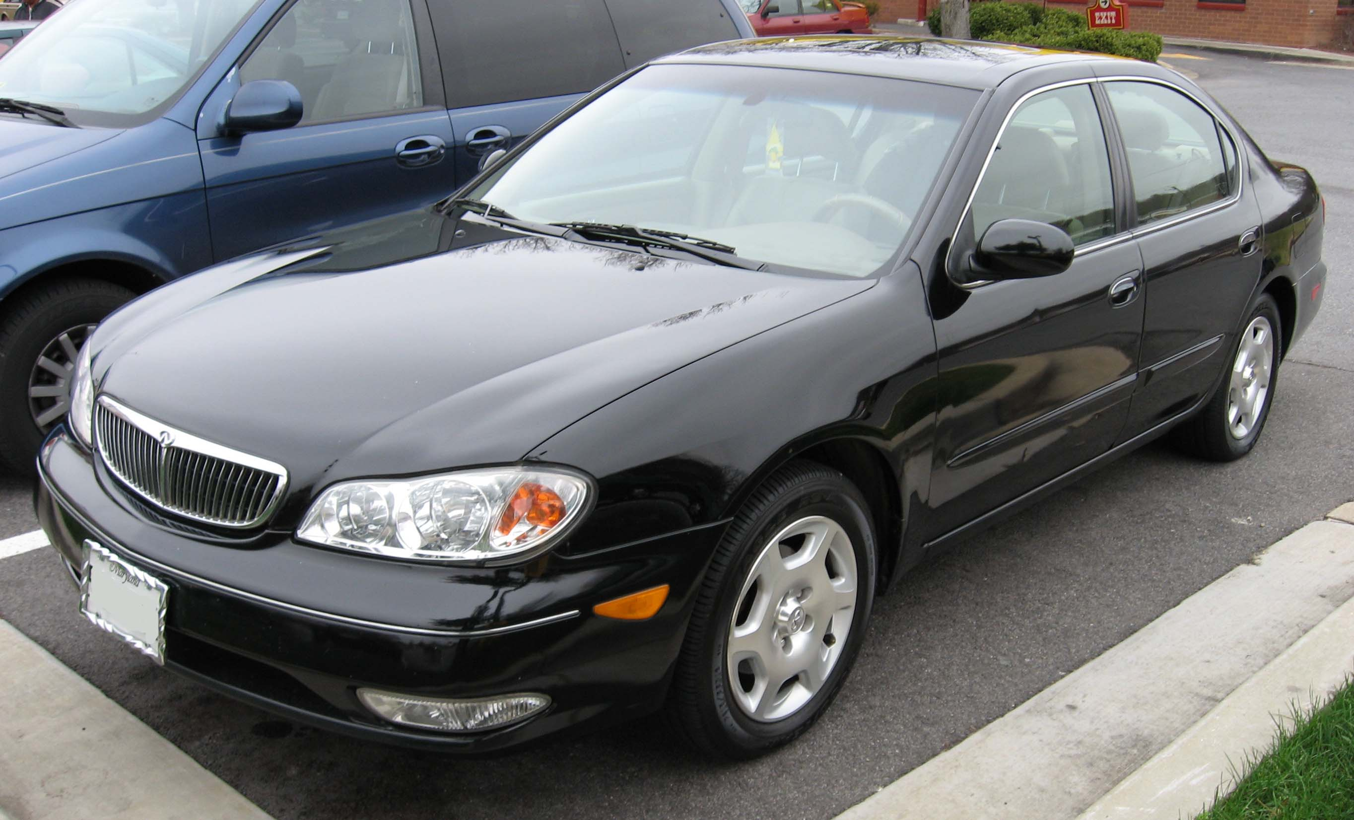 2000 Infiniti I30 photographed in USA.